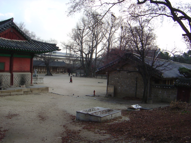 The main plaza of the Seonggyungwan, the National Academy of the Joseon Dynasty, in Seoul, South Korea. Taken by Visviva.